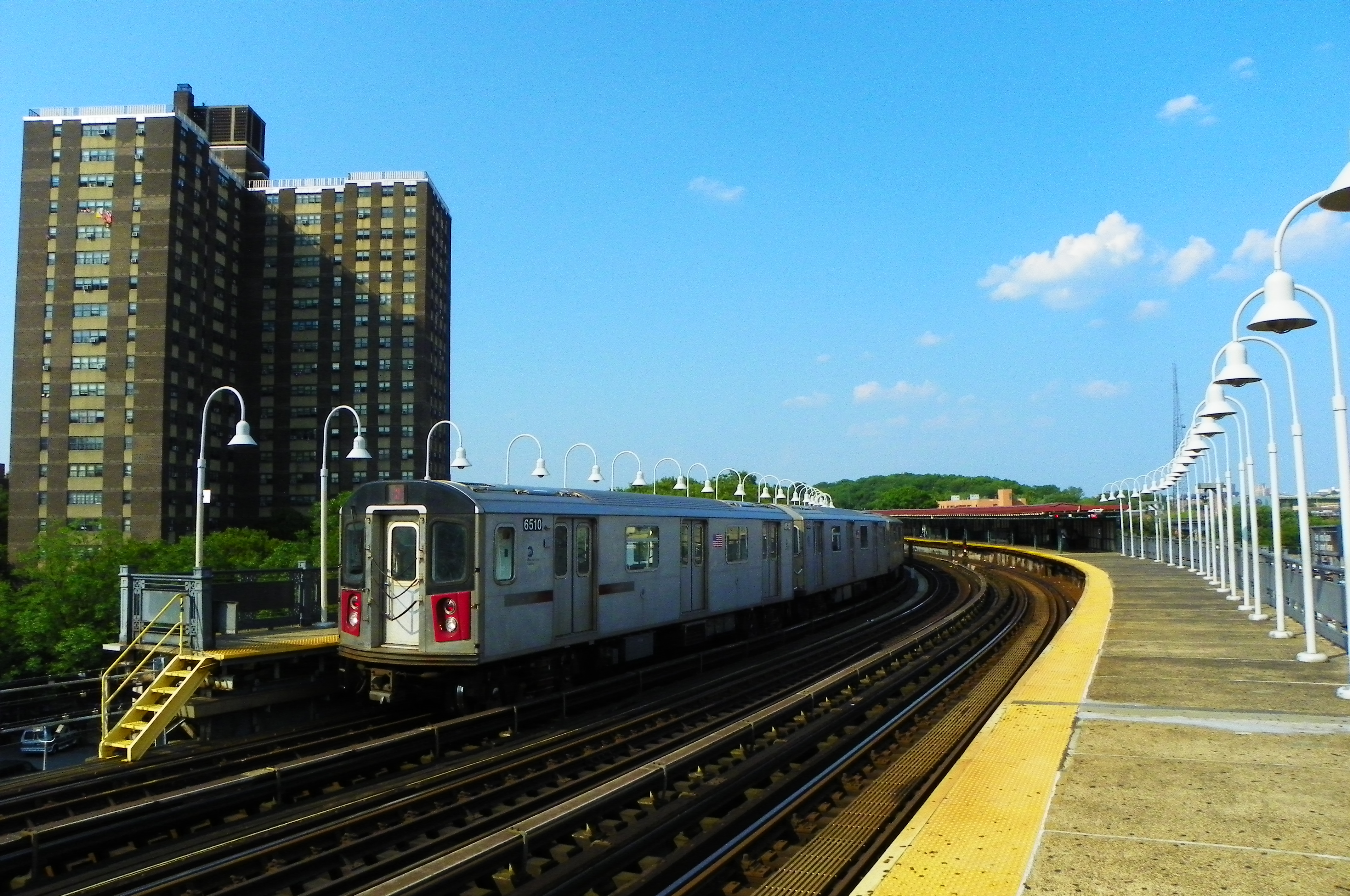 A Manhattan Bound Local train at West Farms Square – East Tremont Avenue Station.